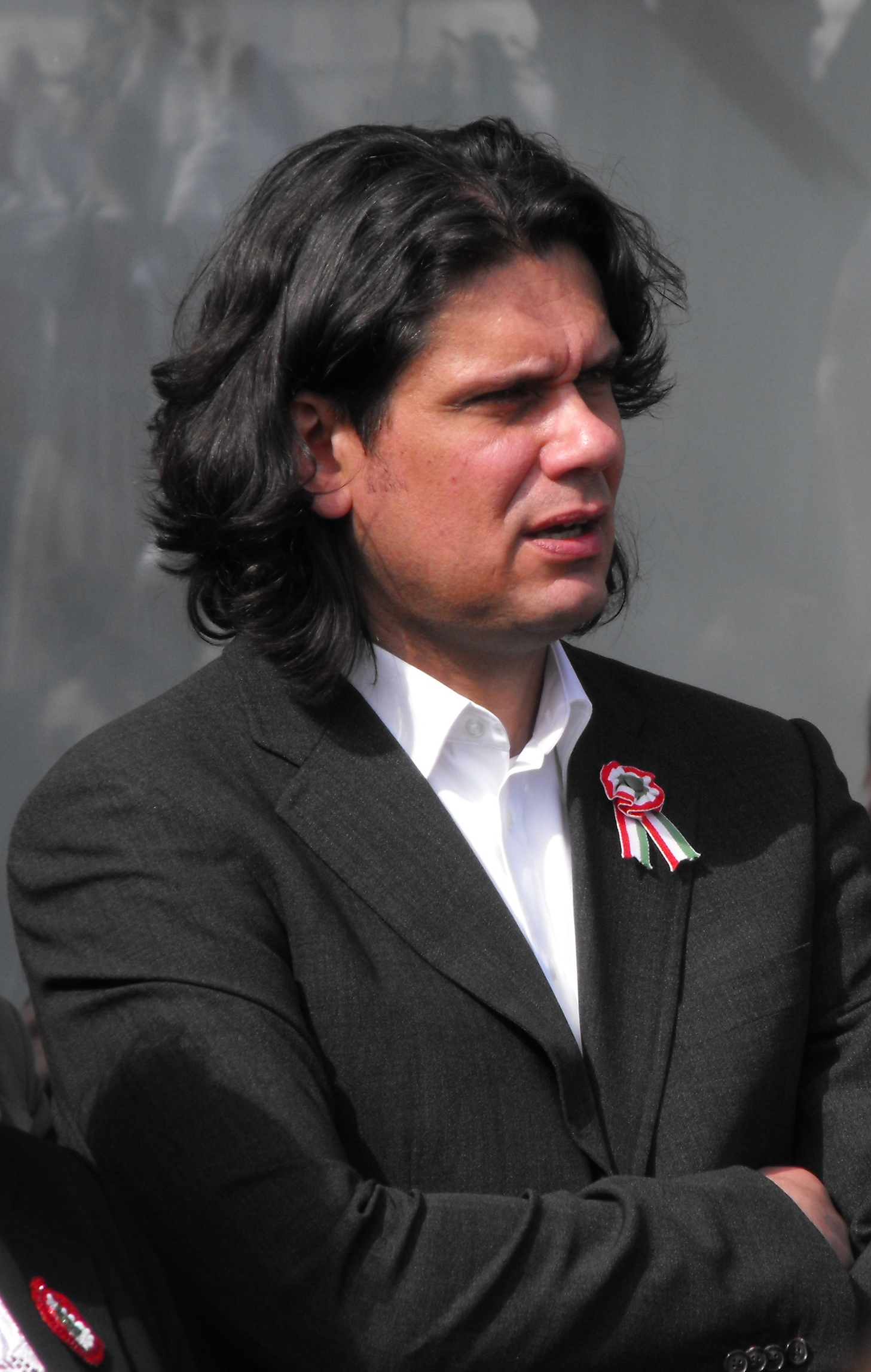 Tamás Deutsch, Hungarian politician, Member of the European Parliament in Makó, Hungary.